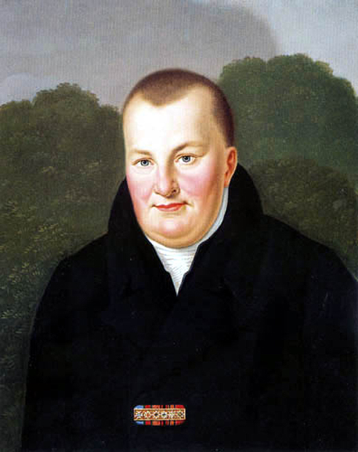 Portrait of Prince Christian of Hesse-Darmstadt (1763-1830)